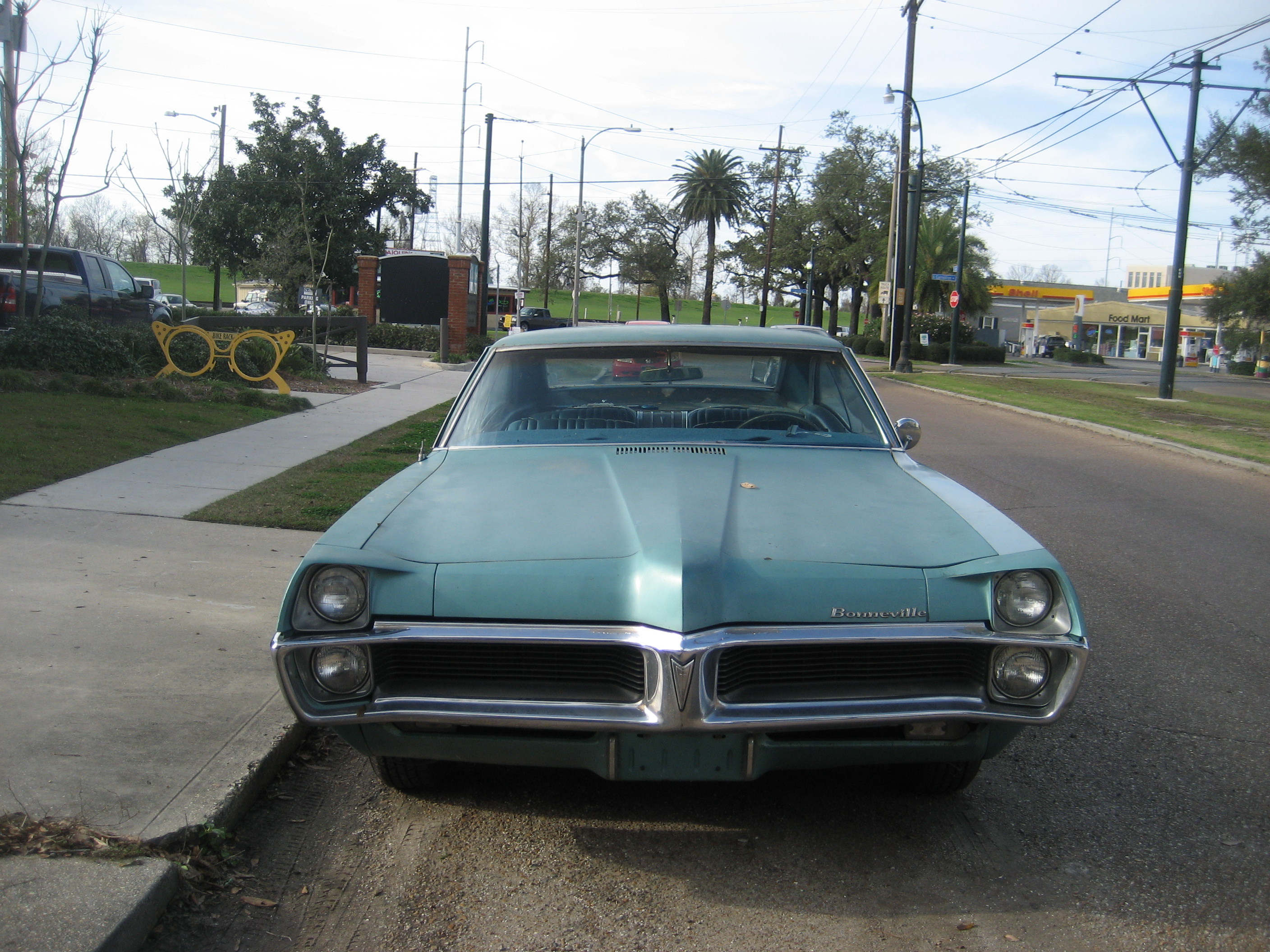 Pontiac Bonneville on St. Charles Avenue, Riverbend, Carrollton section of New Orleans